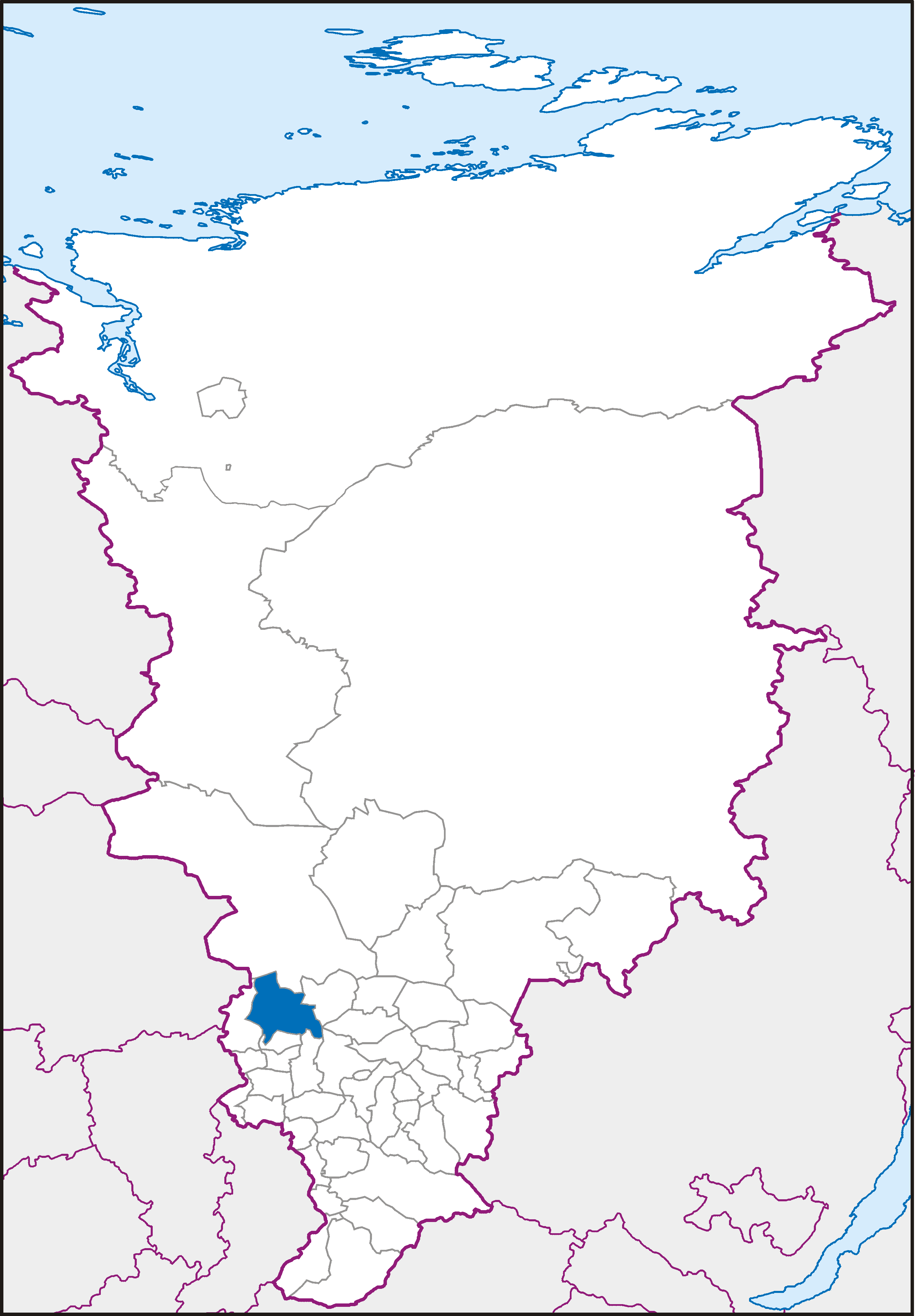 Map of Krasnoyarsk Krai in Albers Equal-Area Conic projection (Central Meridian = 95° E)